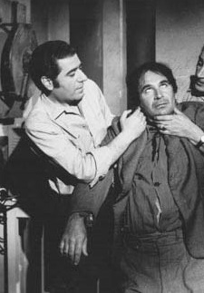 Mario Sapag y Juan Carlos Altavista- actores argentinos